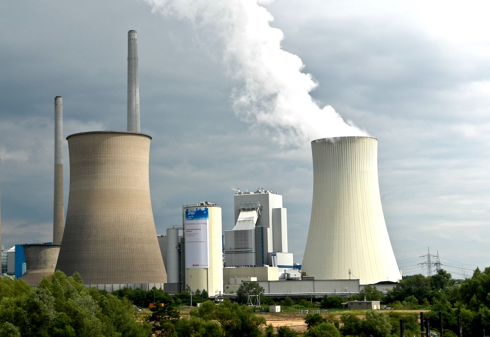 Power station Staudinger. Cooling towers. Coloured in grey and without colour (just concrete without paint).